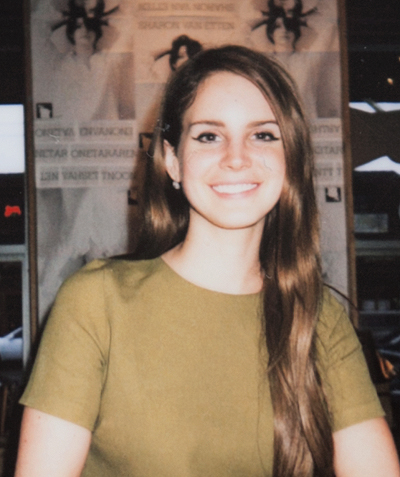 Lana Del Rey promoting her album in March 2012, in Seattle, WA.